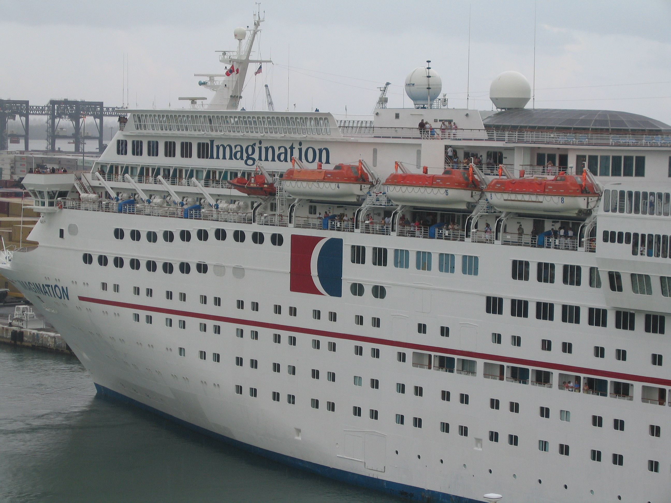 MS Imagination, Carnival Cruise Line ship docked at Miami Beach port, June 2004. Taken from the deck of a cruise ship leaving port